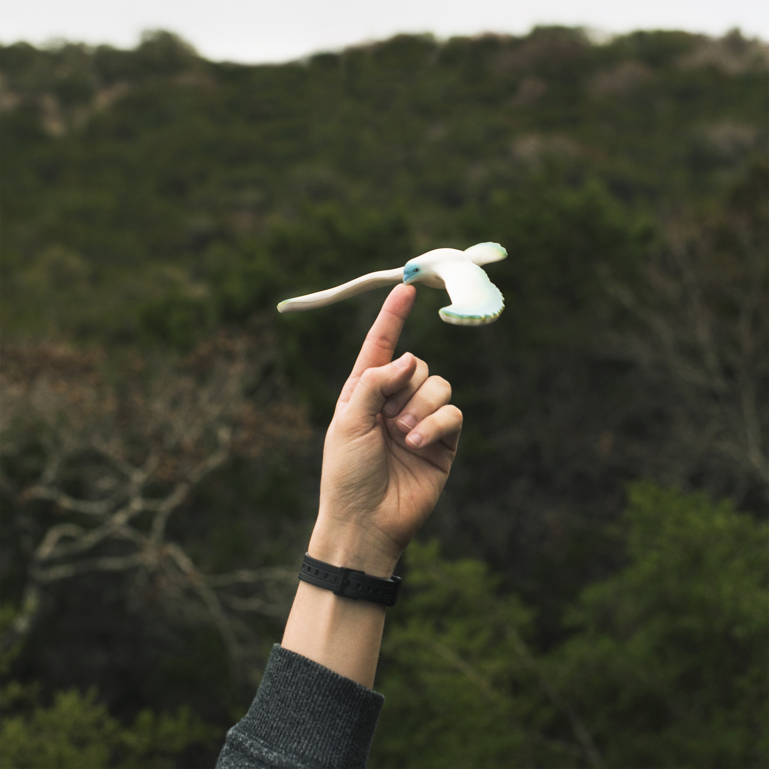 A child's toy displays the scientific principle of center of gravity.